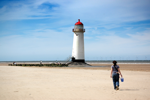 A shot of Talacre Lighthouse from the beach. Taken by Matt Cox. View this on Flickr.